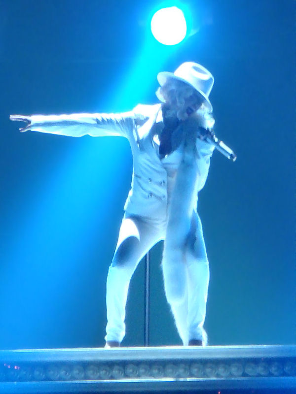 Christina Aguilera sings "Ain't No Other Man"